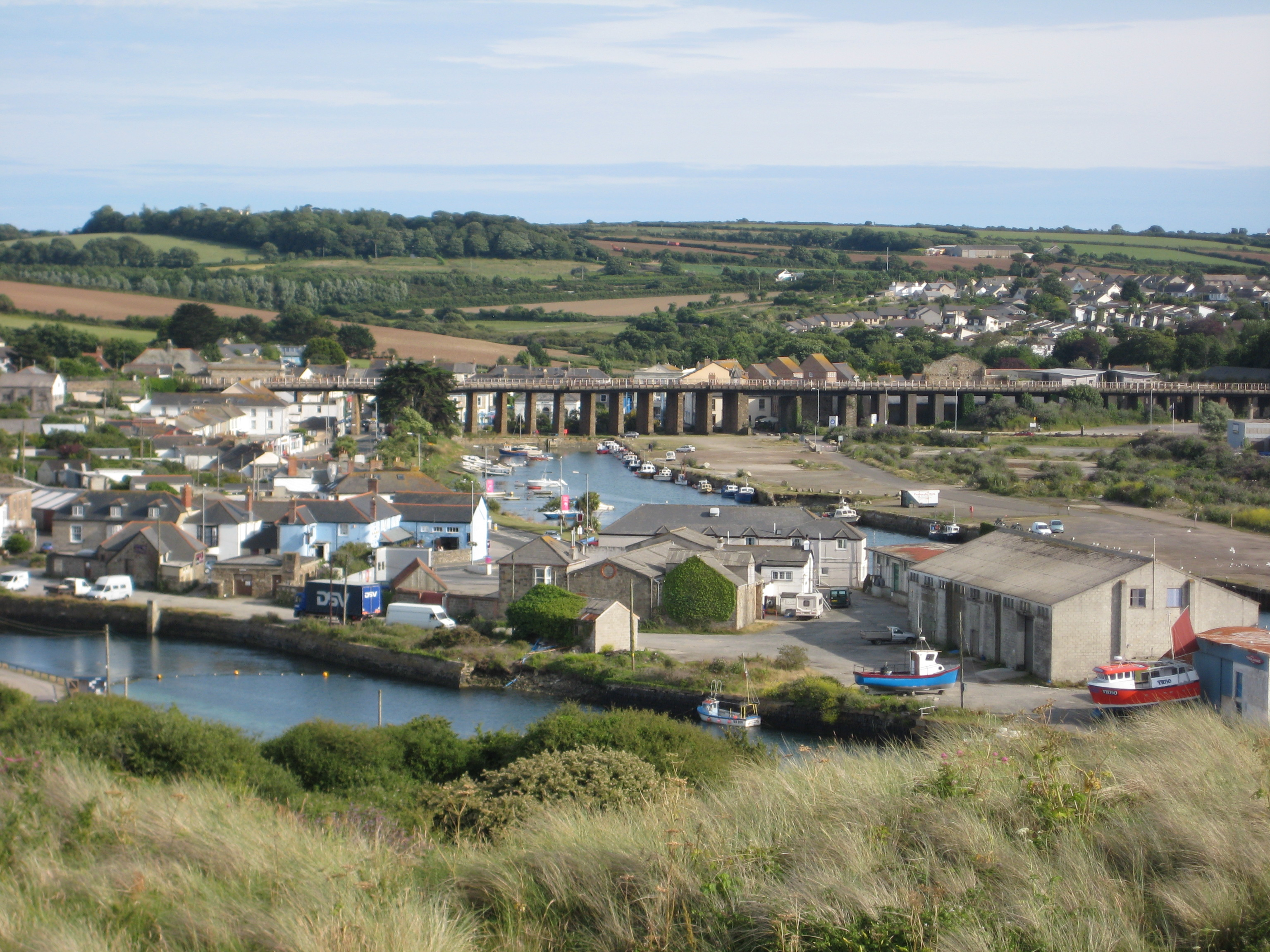 View of the Hayle viaduct